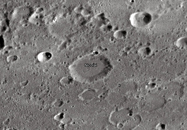 Nicolai lunar crater as seen from Earth with satellite craters labeled